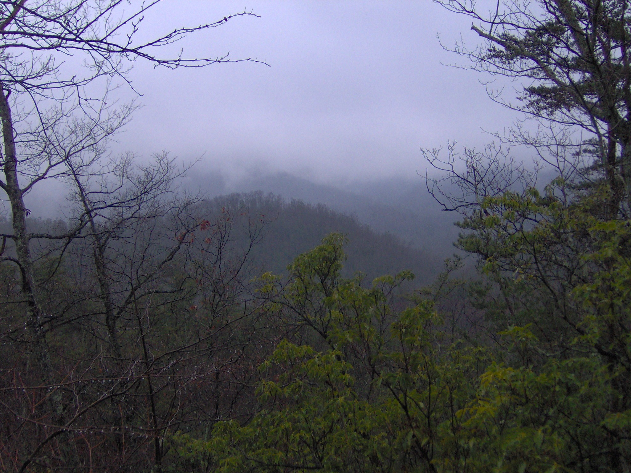 One of the many vistas along the high eastern half of the Roundtop Trail in the Great Smoky Mountains of Tennessee, in the southeastern United States.